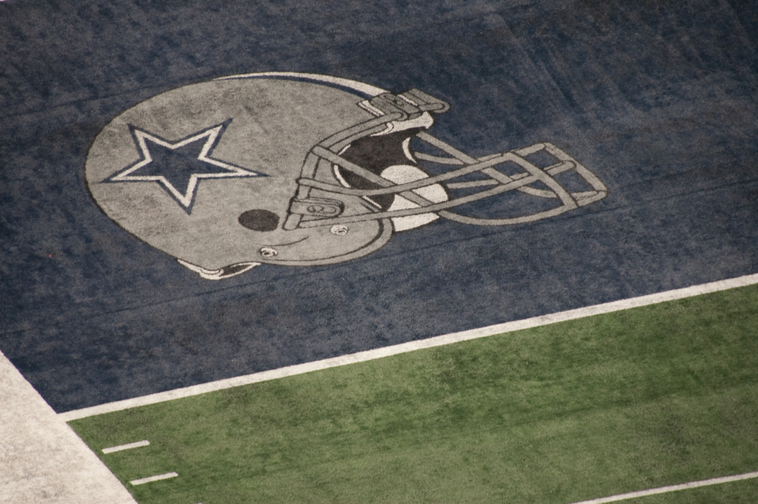 Dallas Cowboys 2009